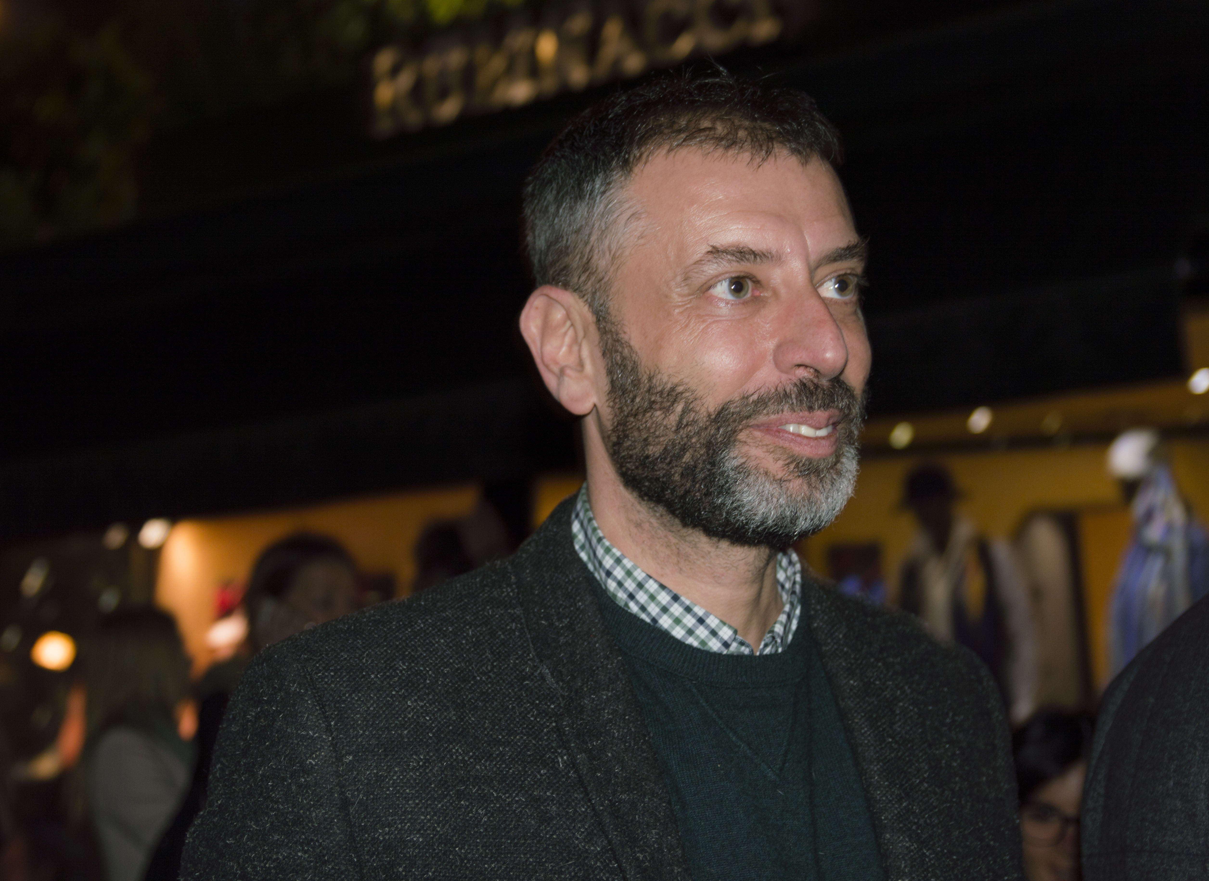 A picture of the Director and Writer Ivan Cotroneo